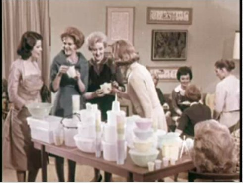 Screenshot taken from the video link above. Showing a hostess having a Tupperware Party with her friends, and several varieties of Tupperware on display.